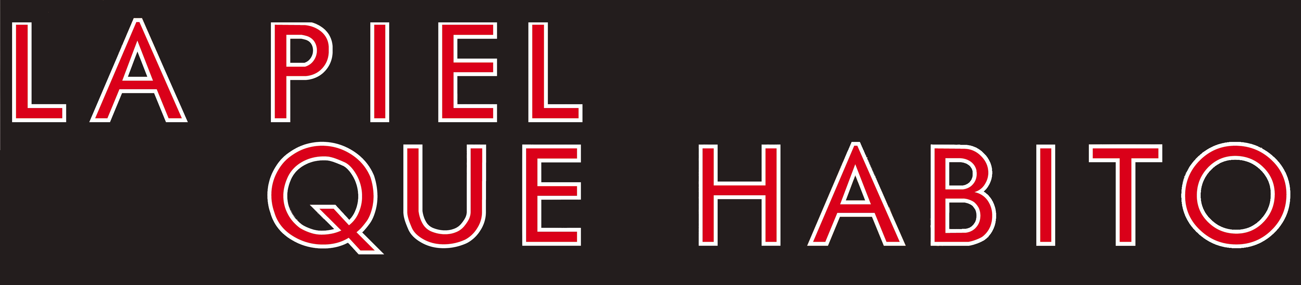 Official logo of the movie The Skin I Live In